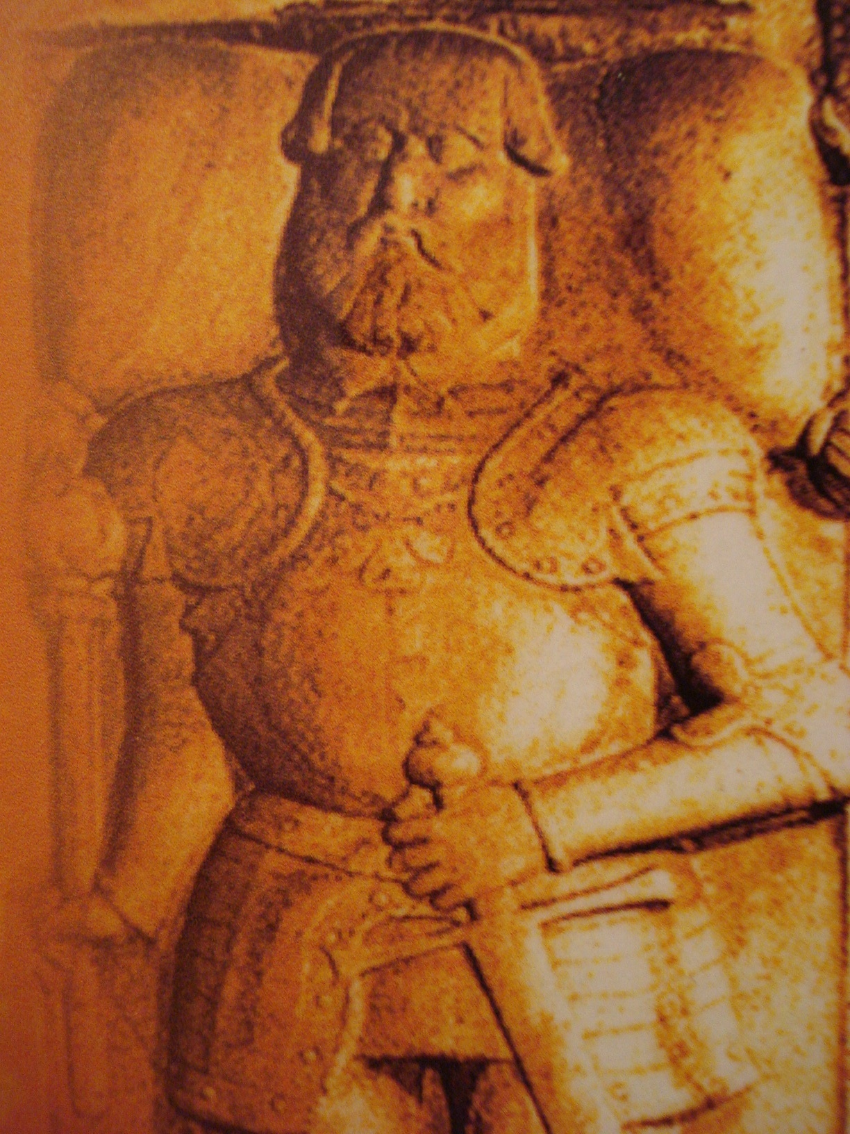 Baron Petar II. Ratkaj /Peter II Ratkay/ († 1586), Croatian nobleman, vice-zhupan of the former (medieval) Varaždin CountyHrvatski: Barun Petar II. Ratkay († 1586), hrvatski plemić, dožupan nekadašnje Varaždinske županije